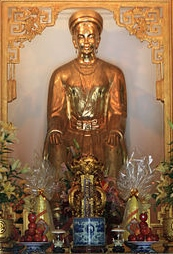 Huyen Tran, was a princess during the Trần Dynasty in the history of Vietnam.